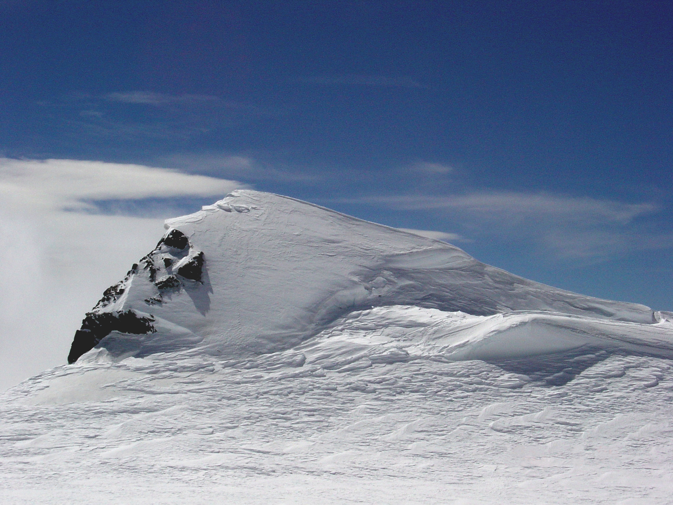 Ludwigshoehe viewed from the north